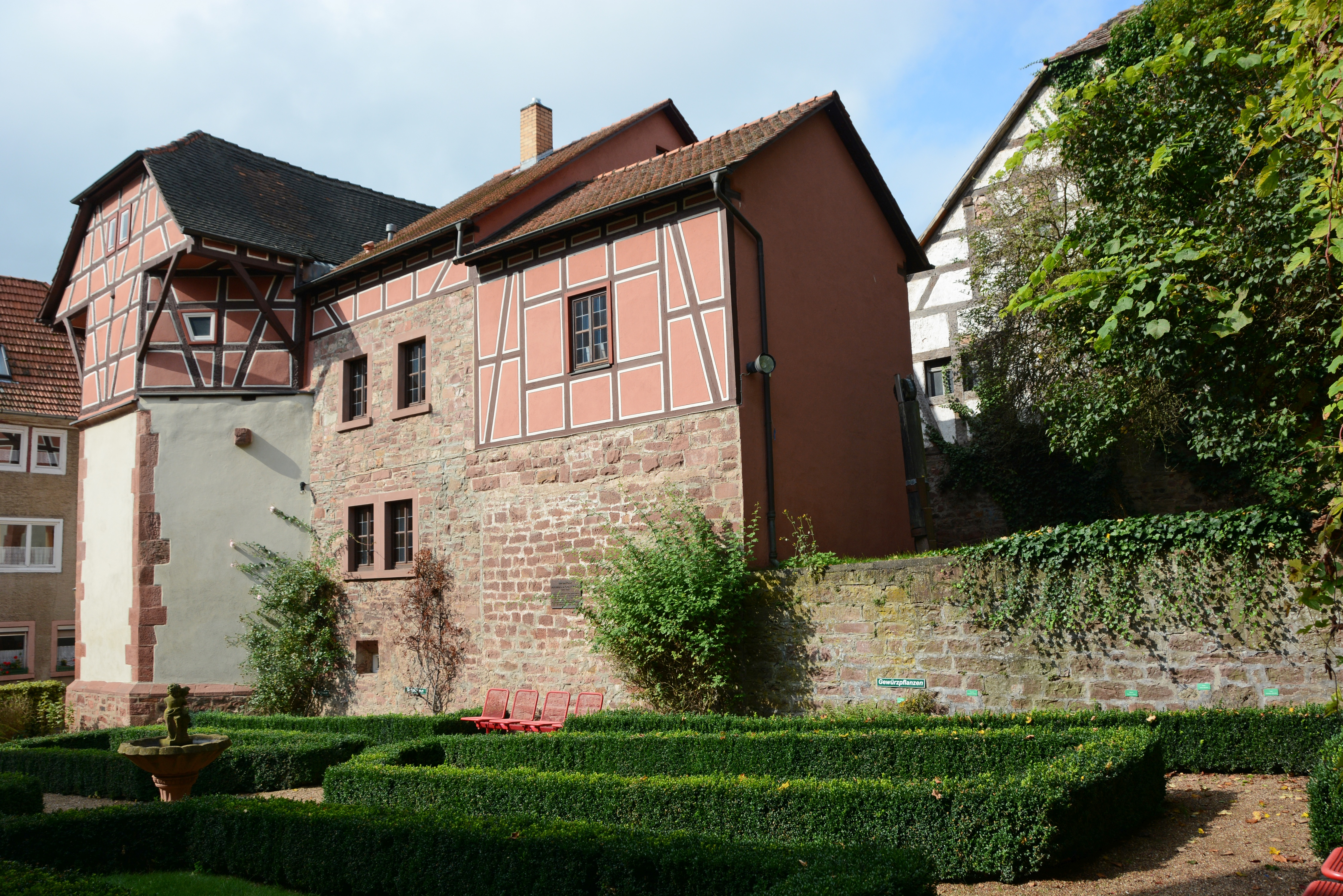 Beguinage, Buchen (Odenwald), Germany